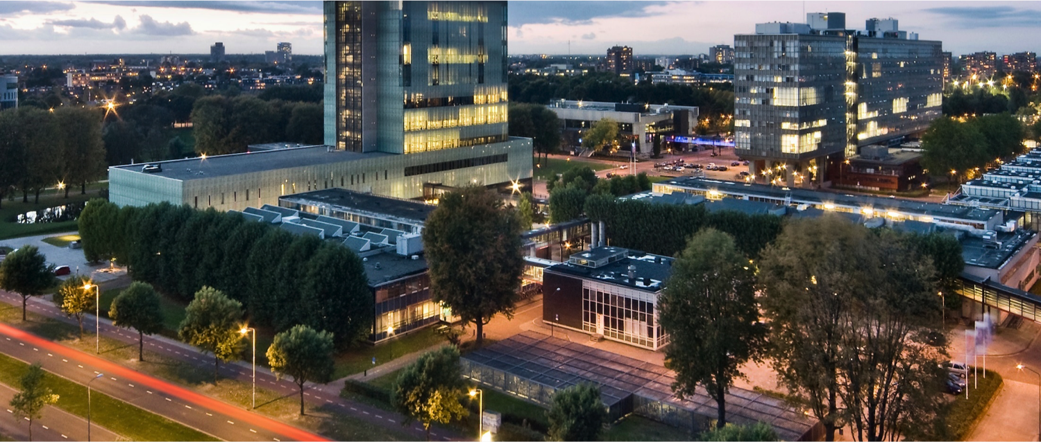 TU by night (high res)